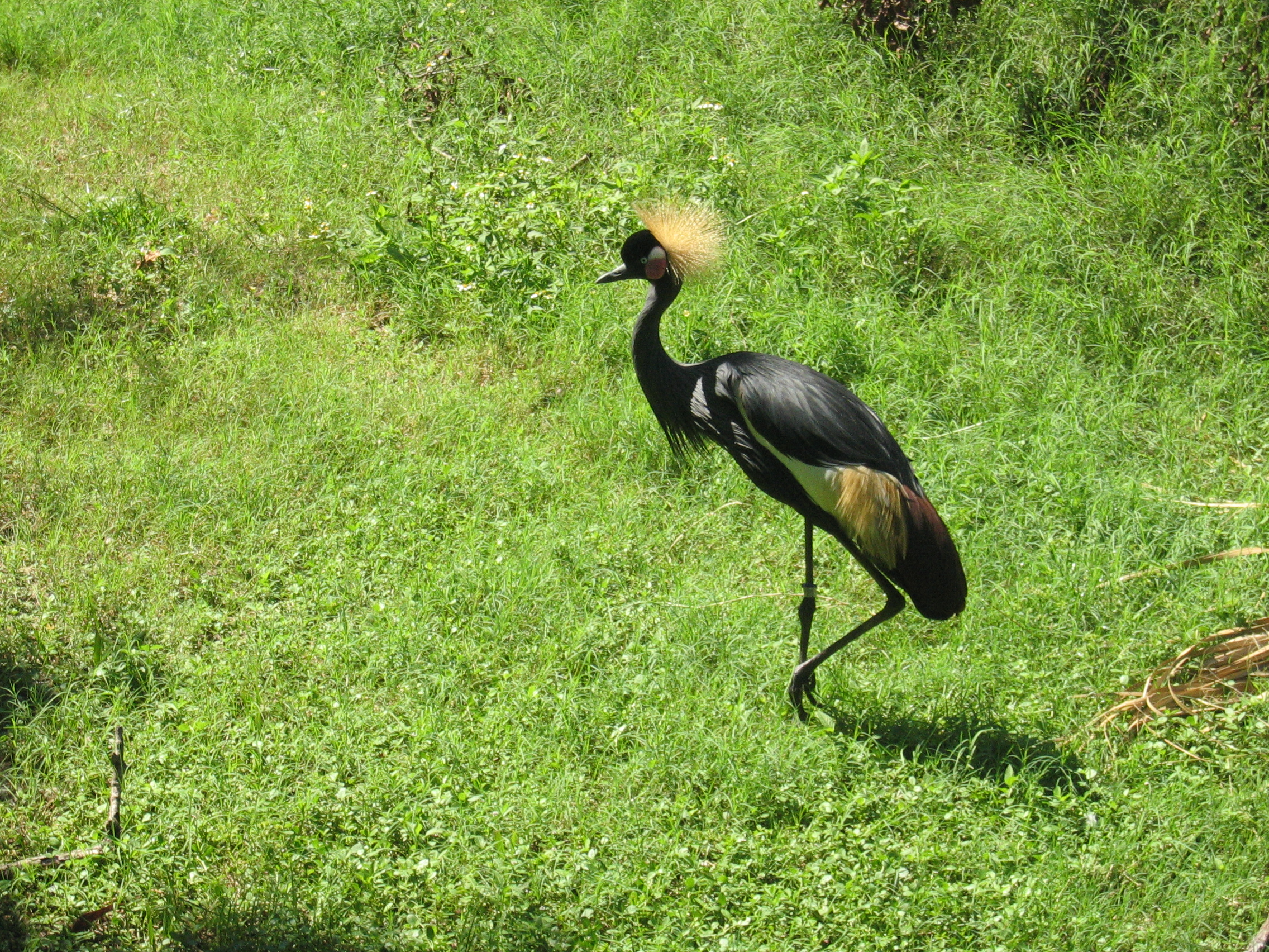 Photo of a Black Crowned Crane (Balearica pavonina).